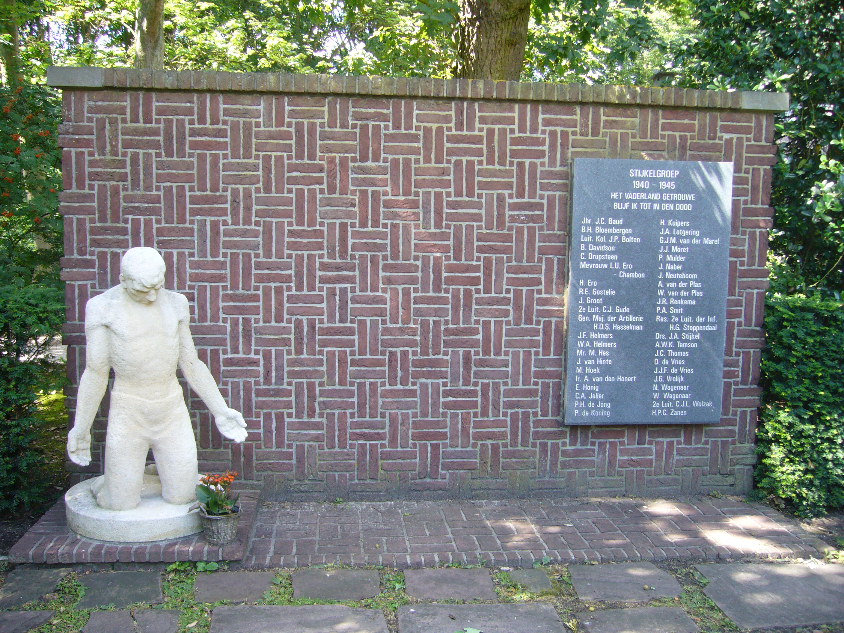 The Netherlands